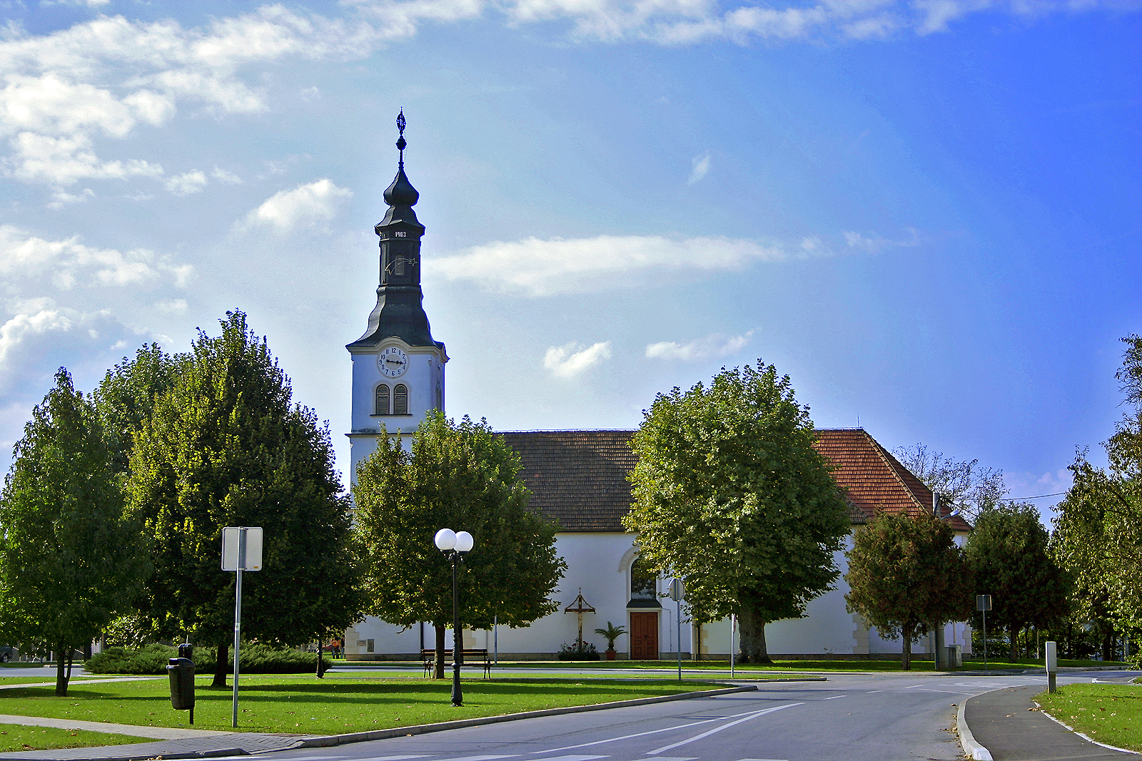 Saint Joseph parish church in Cankova.